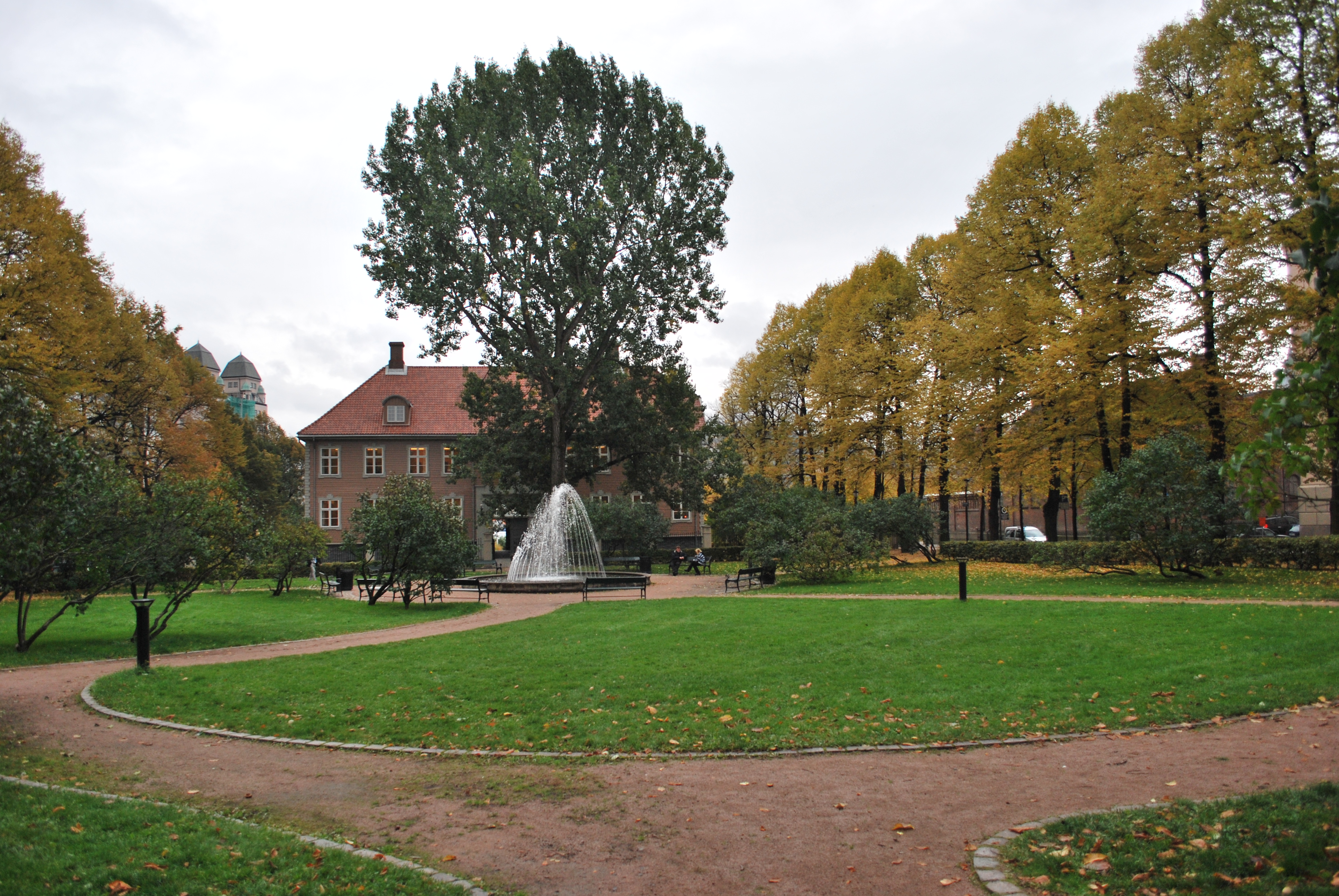 Grev Wedels plass (square), Oslo, with Militærhospitalet